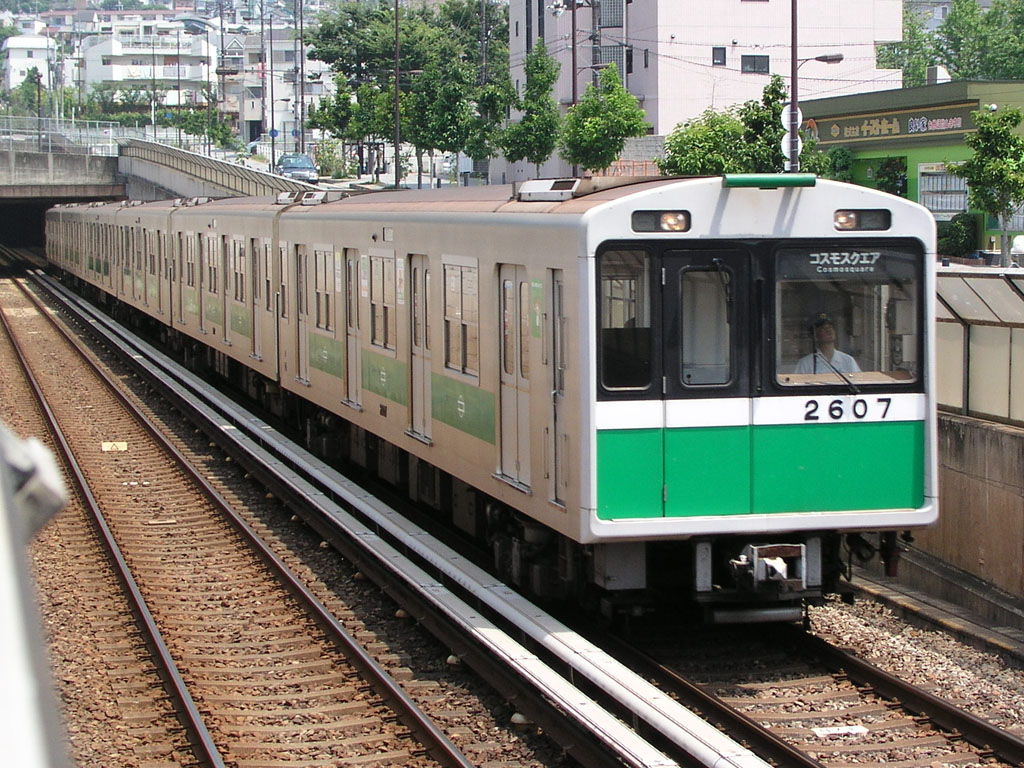 Osaka subway type 20 for Chuo Line